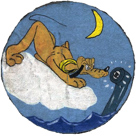 AAF 2d Antisubmarine Squadron -Patch